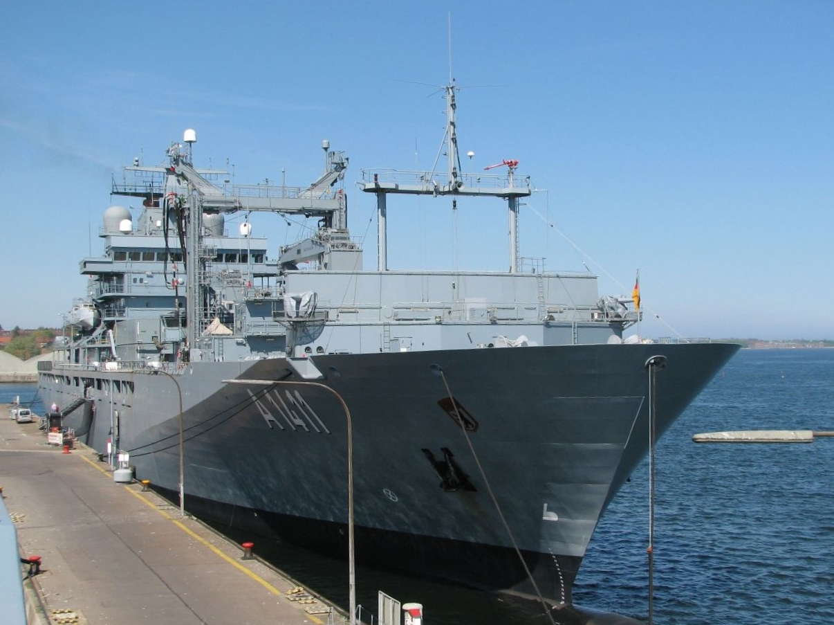 Einsatzgruppeversorger Berlin at a pier